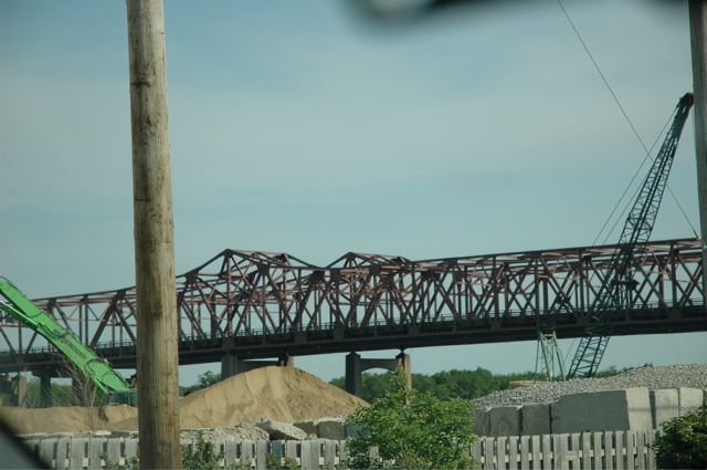 Interstate 80 bridge over the Des Plaines River near Joliet, Illinois.